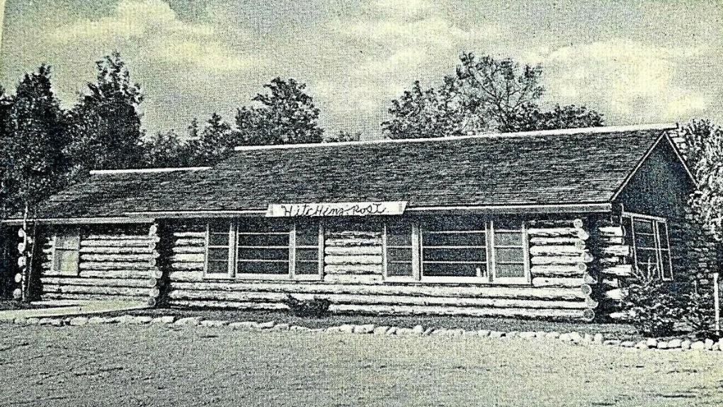 Postcard advertising "The Hitching Post" in Whitefish Bay, Door County, Wisconsin